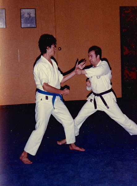 Graduated 3rd dan of karate (wado-ryu) by master Tatsuo Suzuki (1928-2011) himself, he was also the creator of an ephemeral method, the Dynamic Body Defense. He currently holds the 5th dan honorary degree granted by the ABAMJ.